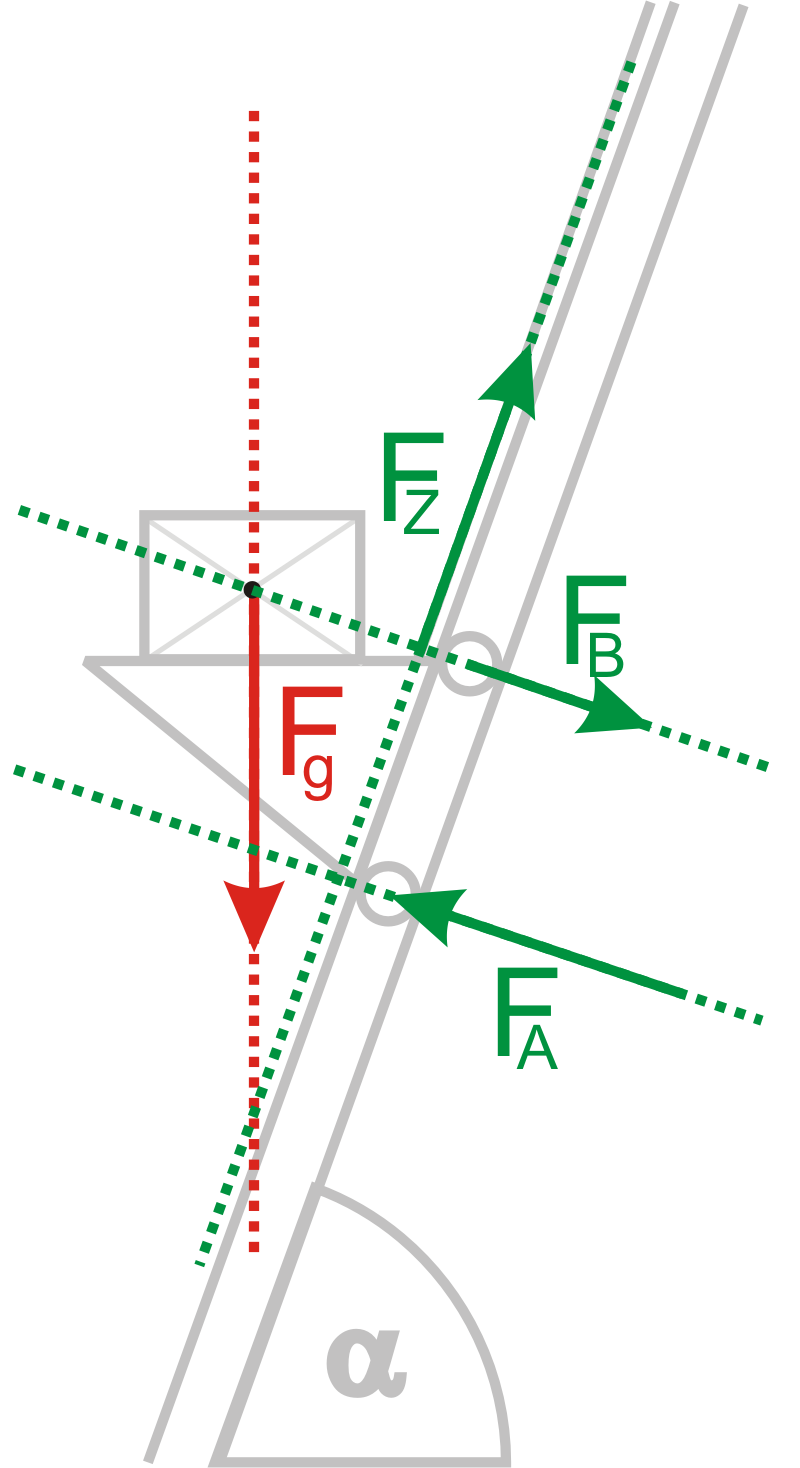 The Culmann method in 4 Steps